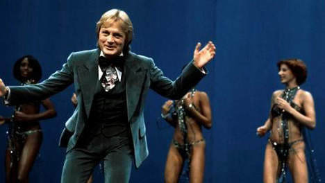 Claude François